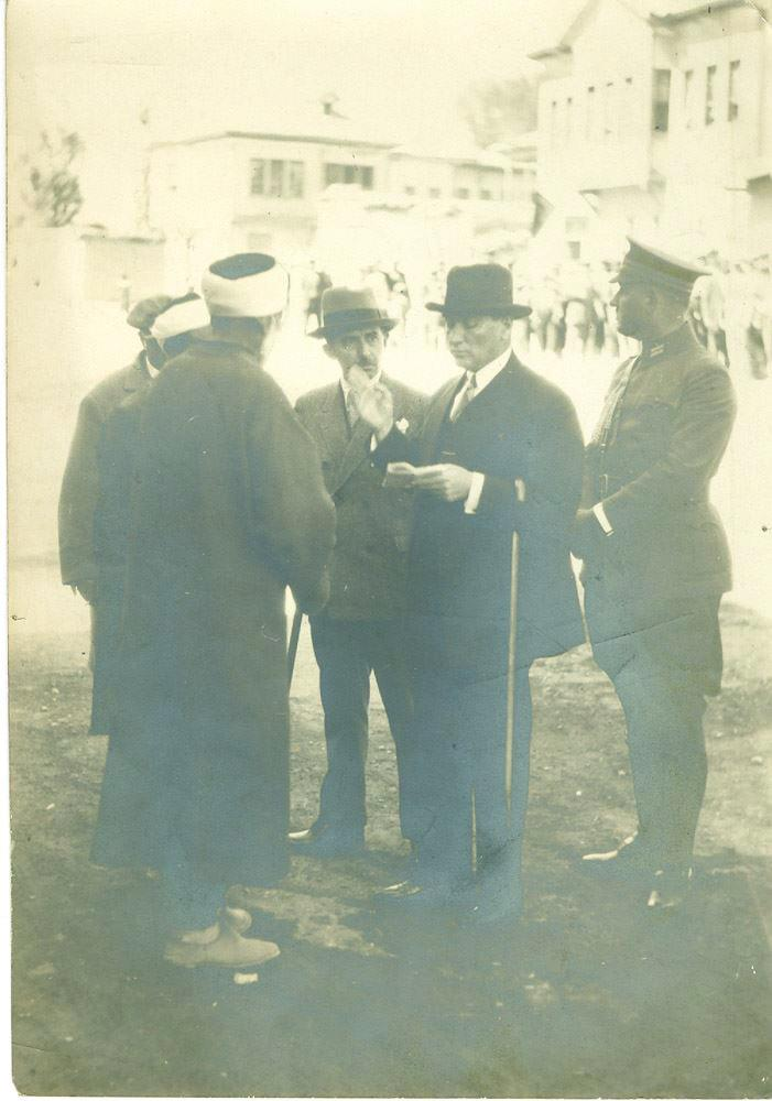 Kemal Atatürk (or alternatively written as Kamâl Atatürk, Mustafa Kemal Pasha until 1934, commonly referred to as Mustafa Kemal Atatürk; 1881 – 10 November 1938) was a Turkish field marshal, revolutionary statesman, author, and the founding father of the Republic of Turkey, serving as its first President from 1923 until his death in 1938. He undertook sweeping progressive reforms, which modernized Turkey into a secular, industrial nation. Ideologically a secularist and nationalist, his policies and theories became known as Kemalism. Due to his military and political accomplishments, Atatürk is regarded as one of the most important political leaders of the 20th century.